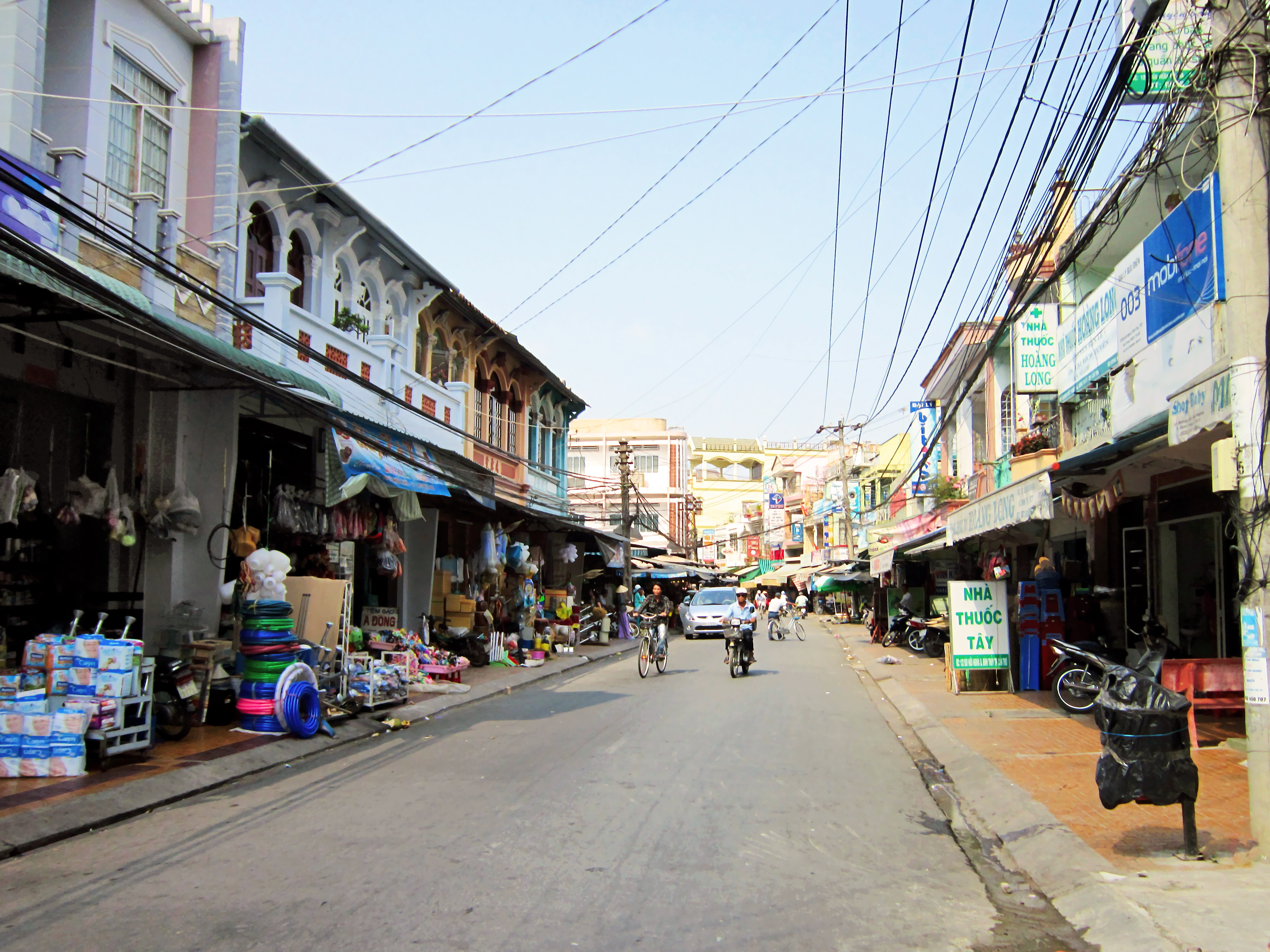 Phố chợ ở trung tâm phường Bình Thủy, thuộc quận Bình Thủy, TP. Cần Thơ, Việt Nam.